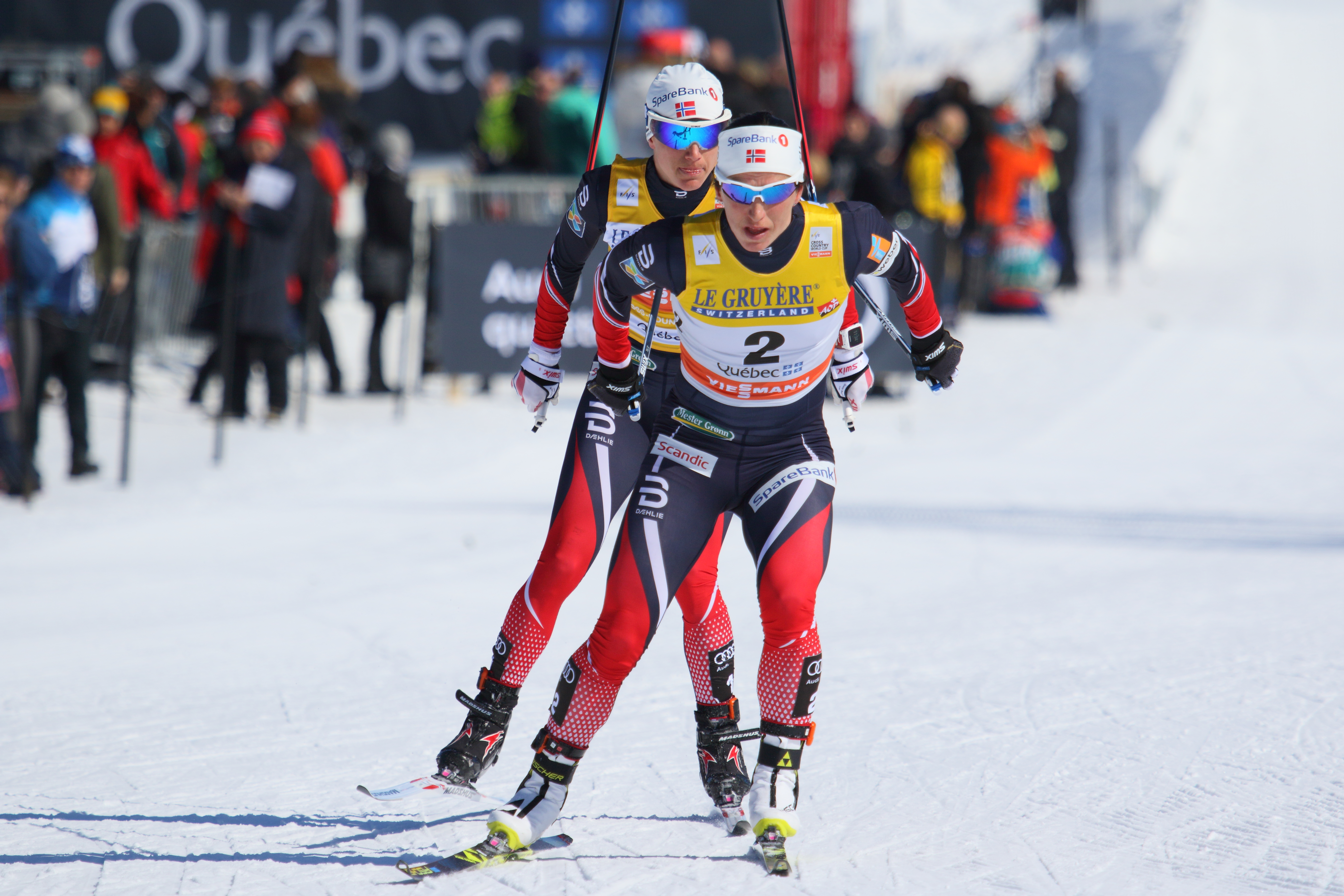 Heidi Weng and Marit Bjørgen, 2017 Ski Tour Canada, Quebec City.